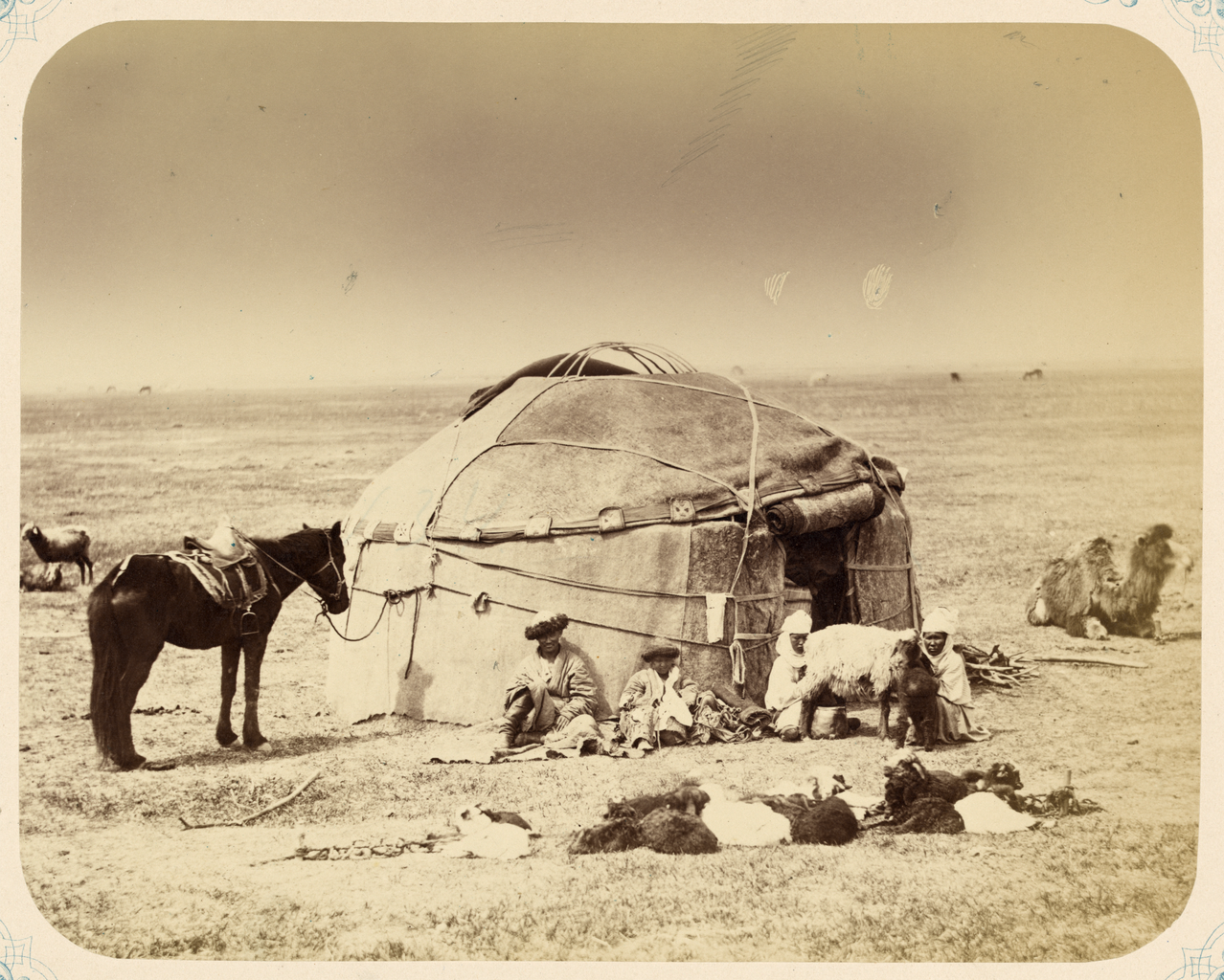 This photograph is from the ethnographical part of Turkestan Album, a comprehensive visual survey of Central Asia undertaken after imperial Russia assumed control of the region in the 1860s. Commissioned by General Konstantin Petrovich von Kaufman (1818–82), the first governor-general of Russian Turkestan, the album is in four parts spanning six volumes: “Archaeological Part” (two volumes); “Ethnographic Part” (two volumes); “Trades Part” (one volume); and “Historical Part” (one volume). The principal compiler was Russian Orientalist Aleksandr L. Kun, who was assisted by Nikolai V. Bogaevskii. The album contains some 1,200 photographs, along with architectural plans, watercolor drawings, and maps. The “Ethnographic Part” includes 491 individual photographs on 163 plates. The photographs show individuals representing the different peoples of the region (Plates 1–33); daily life and rituals (Plates 34–91); and views of villages and cities, street vendors, and commercial activities (Plates 92–163). Camels; Ethnographic photographs; Horses; Pack animals; Photographic surveys; Turkic peoples; Yurts